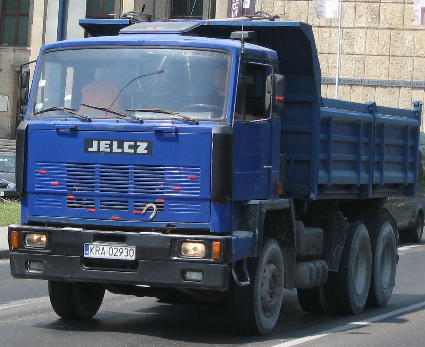 Blue Jelcz truck on Adama Mickiewicza avenue in Kraków.